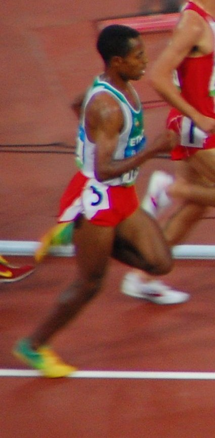 Kenenisa Bekele, 2008 Summer Olympics - Men's 5000m Round 1 - Heat 3